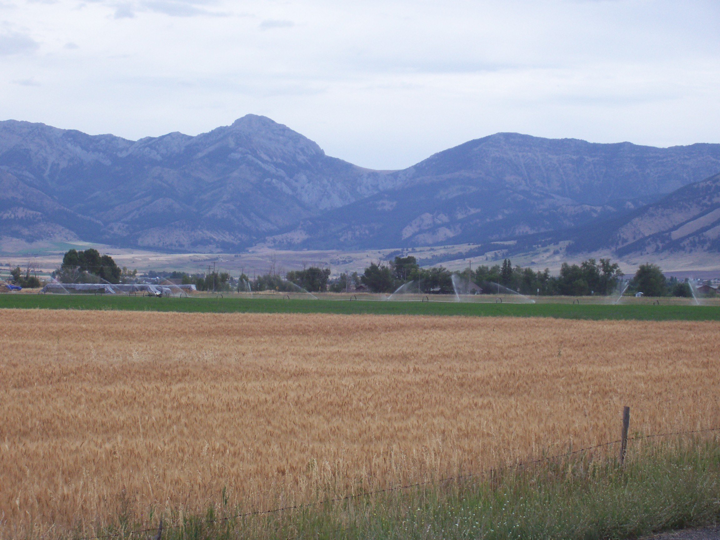 The Bridger Mountains just outside of Belgrade on Airport Road.